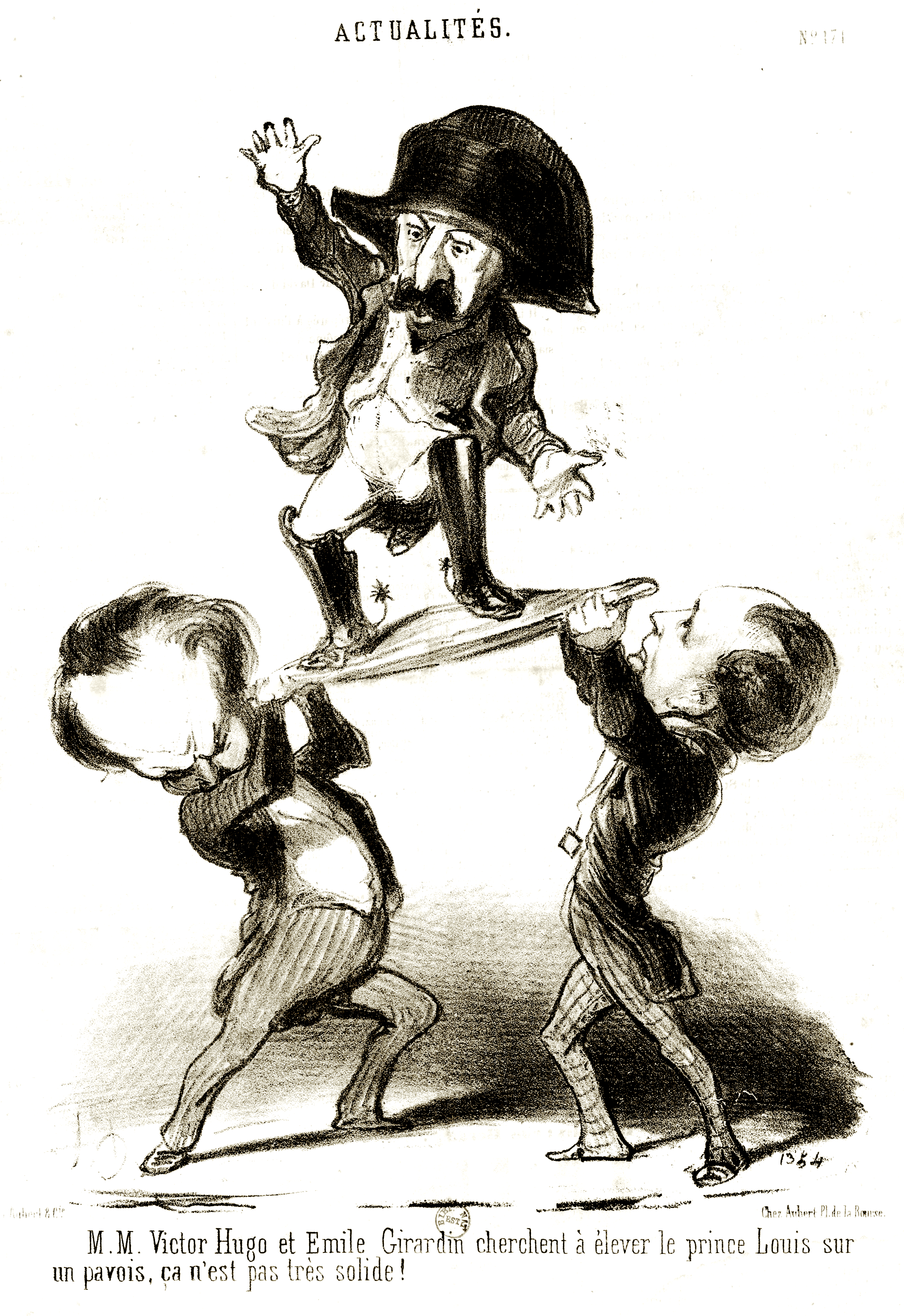 Émile de Girardin (1806–1881), Victor Hugo (1802–1885), Napoléon III (1808–1873).